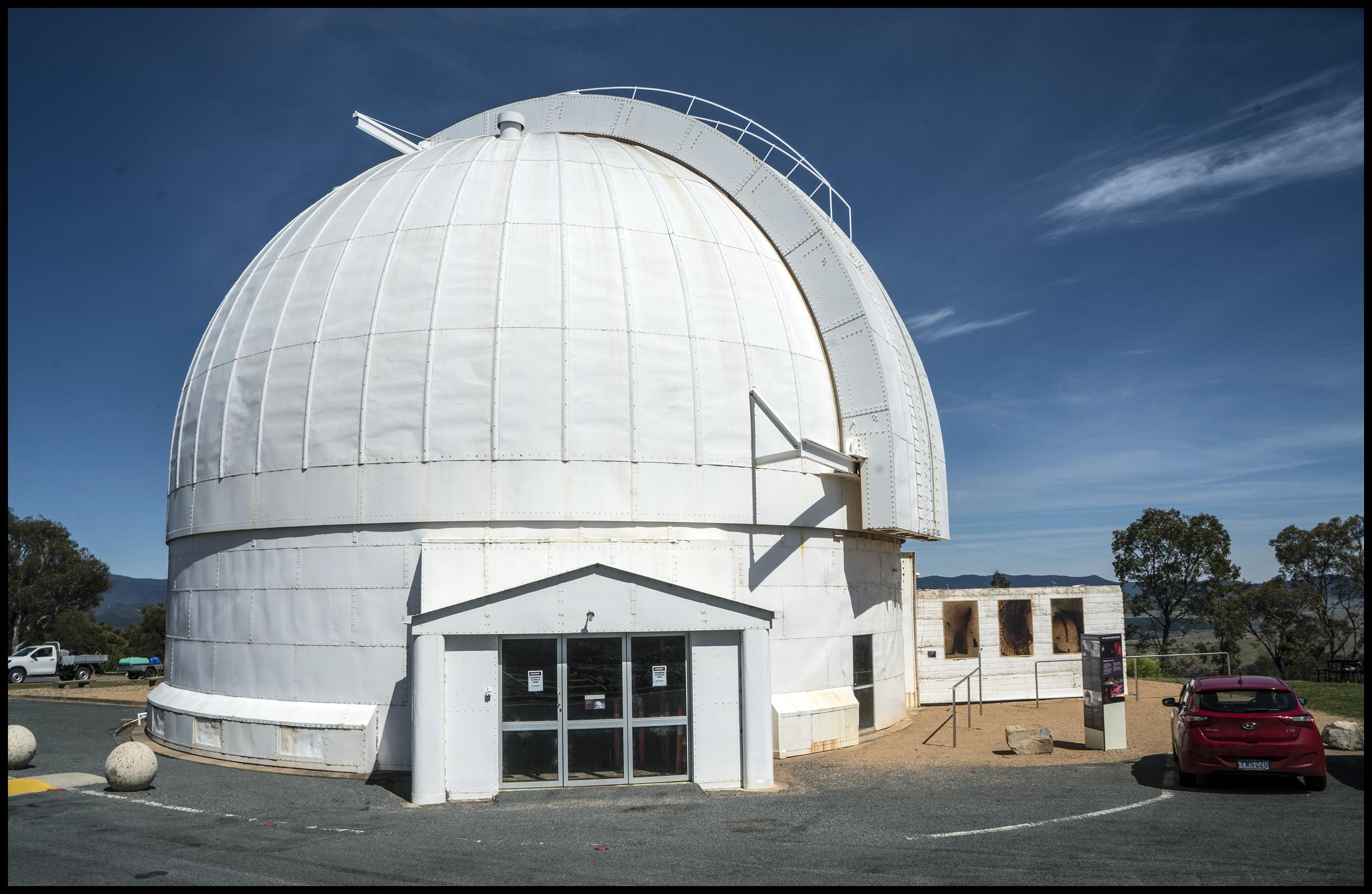 Mount Stromlo Observatory